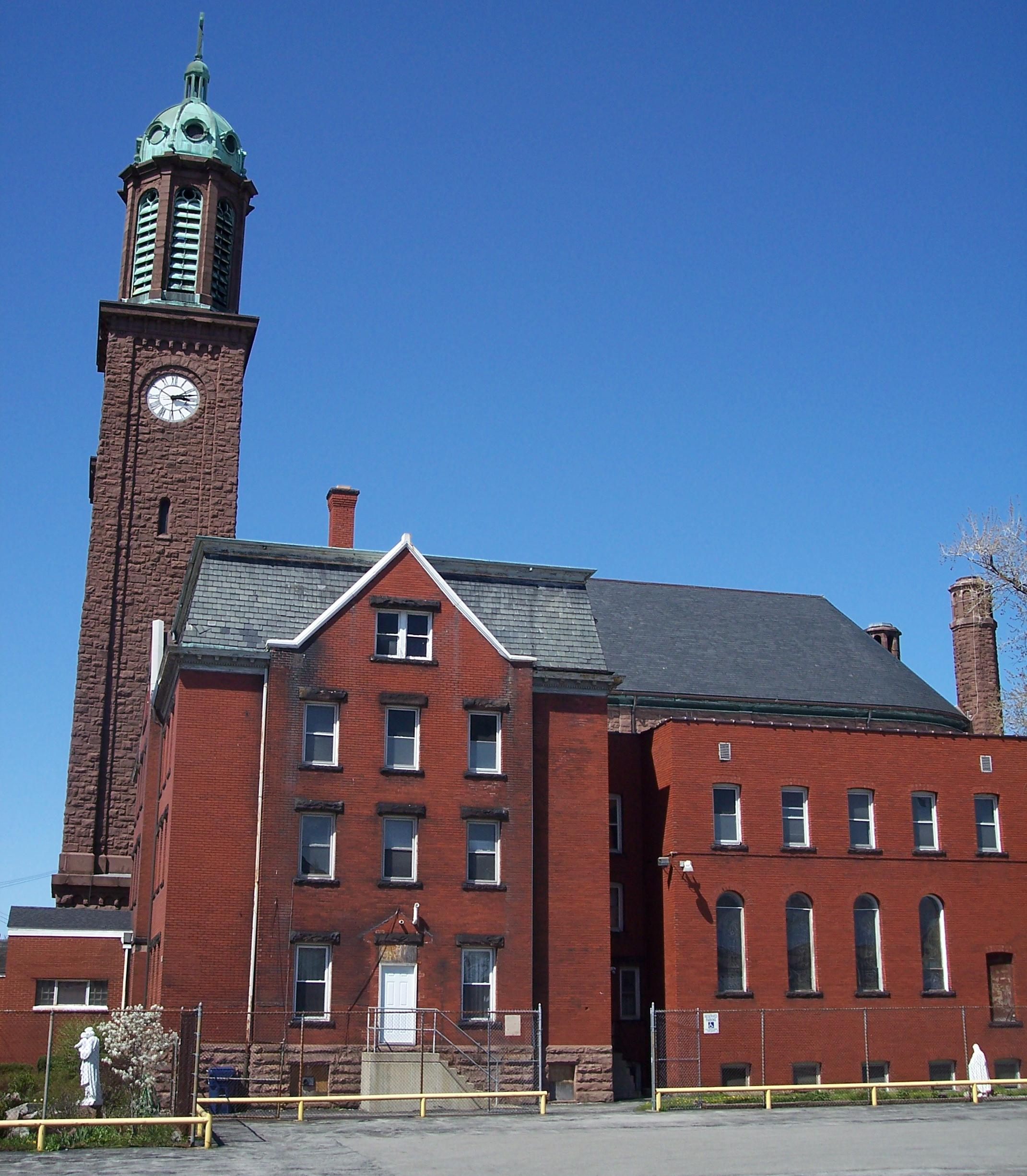 Corpus Christi R.C. Church, 199 Clark Street, Buffalo, New York